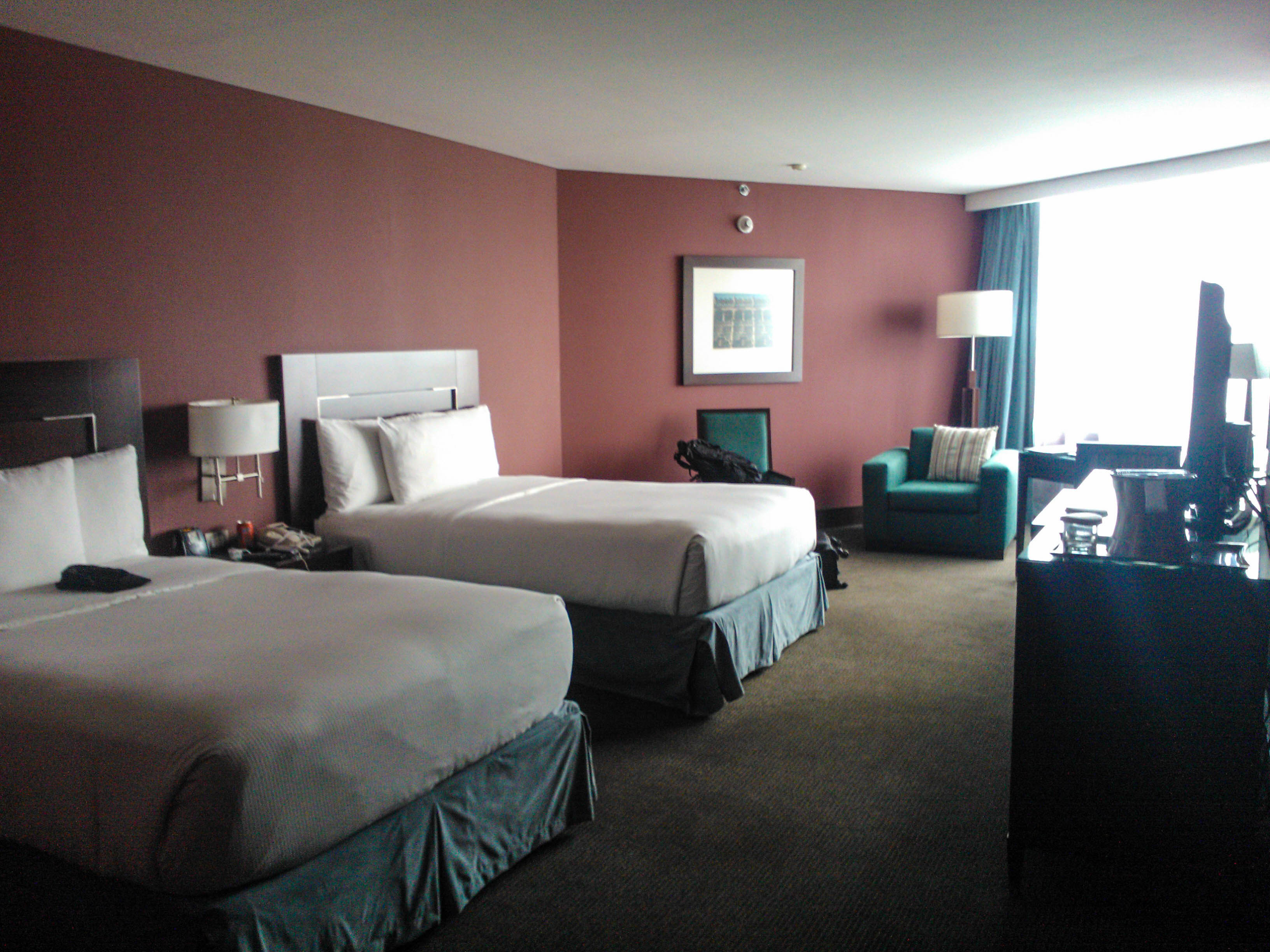 Inside the room, Hilton Mexico City Reforma.